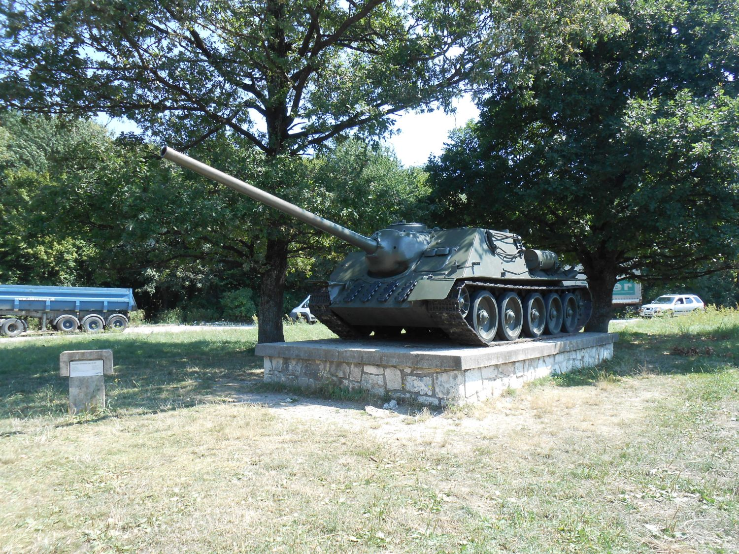 Soviet tank destroyer SU-100 displayed near the war memorial at Dargov Pass